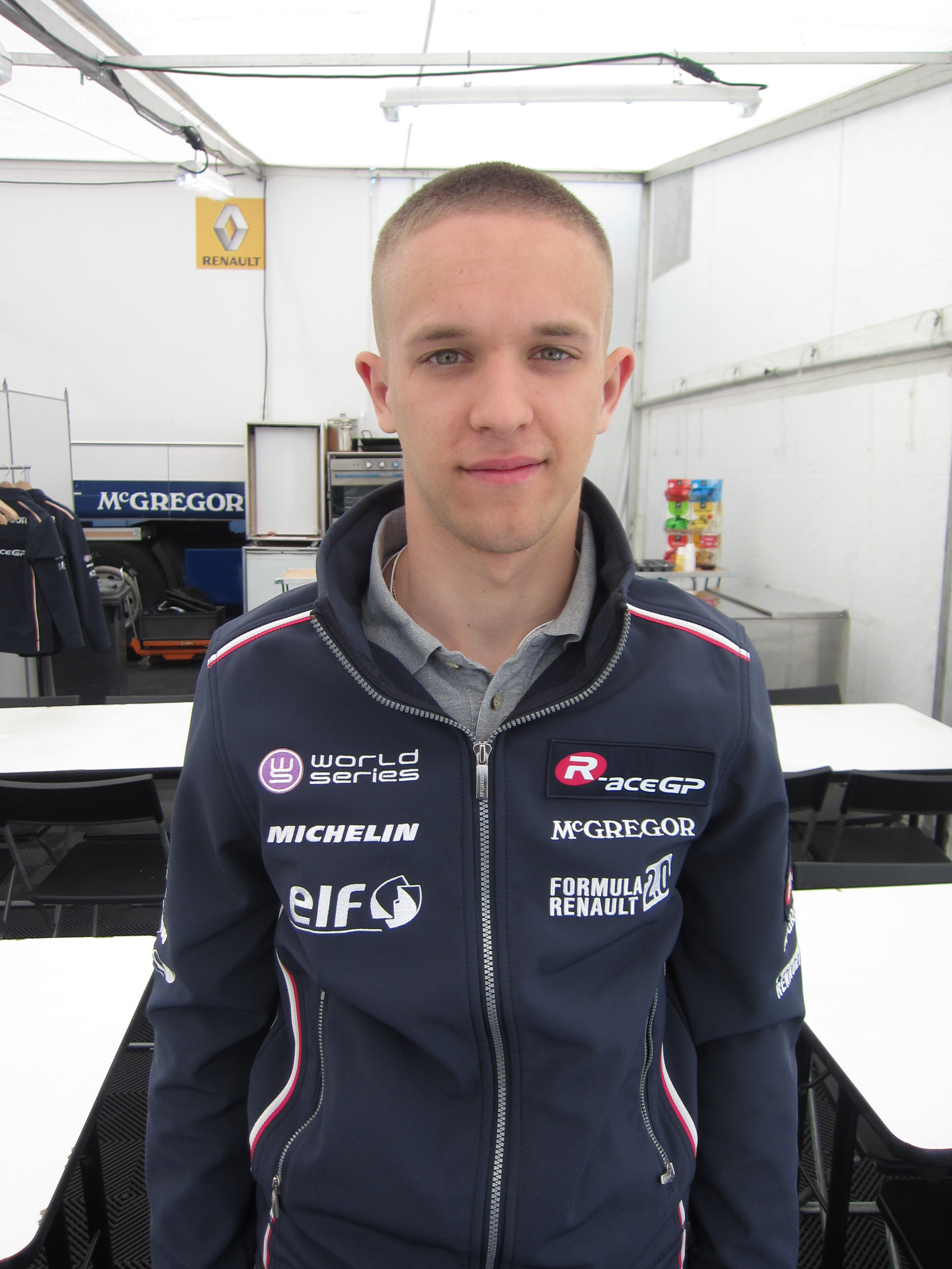 Côme Ledogar: the photo was taken during 2011's Preis der Stadt Stuttgart (= Prix of the town Stuttgart) at Hockenheim